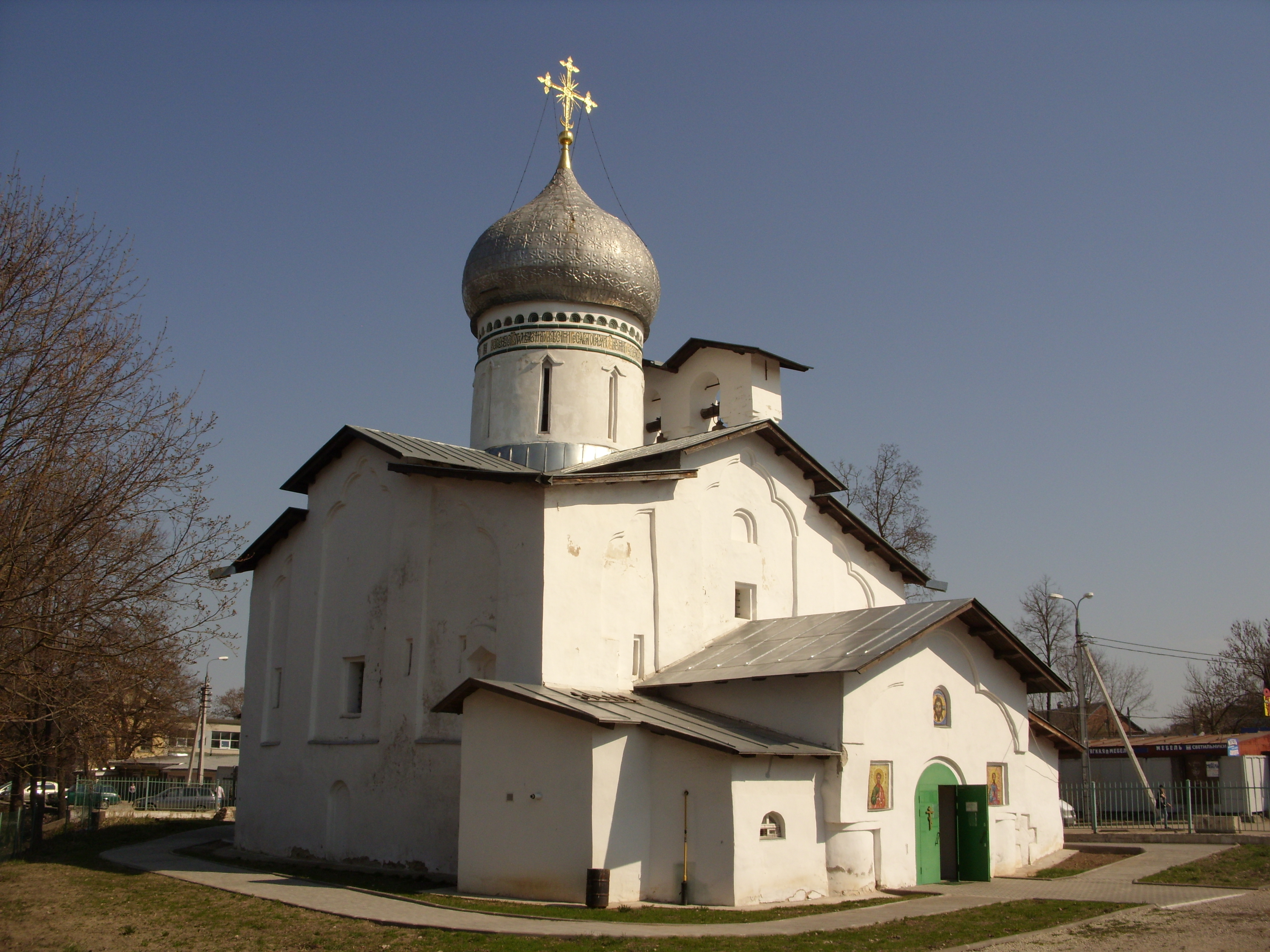 Pskov Petra i Pavla s Buja